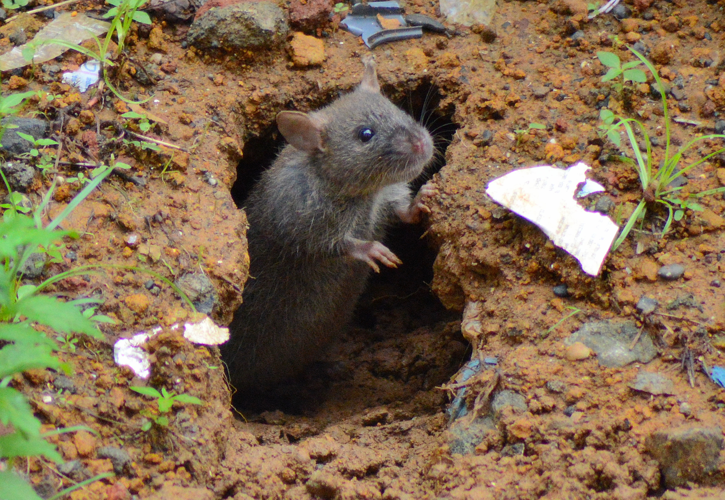 Rat hole